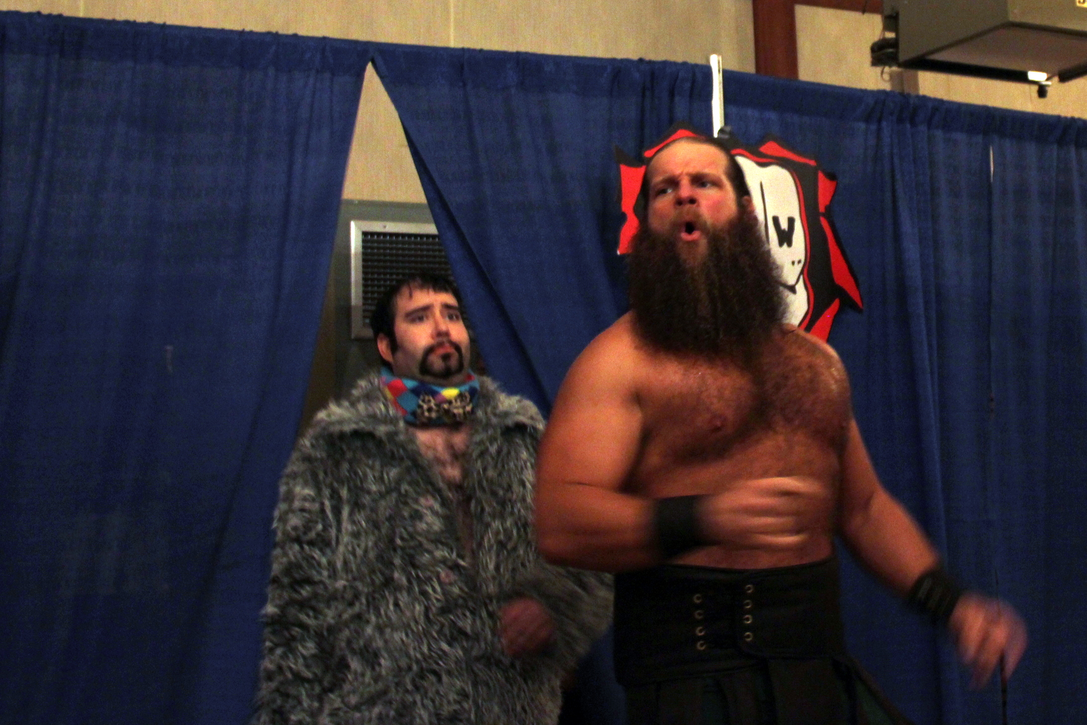 Wrestler Todd Hanson (right) and manager Joel Gertner